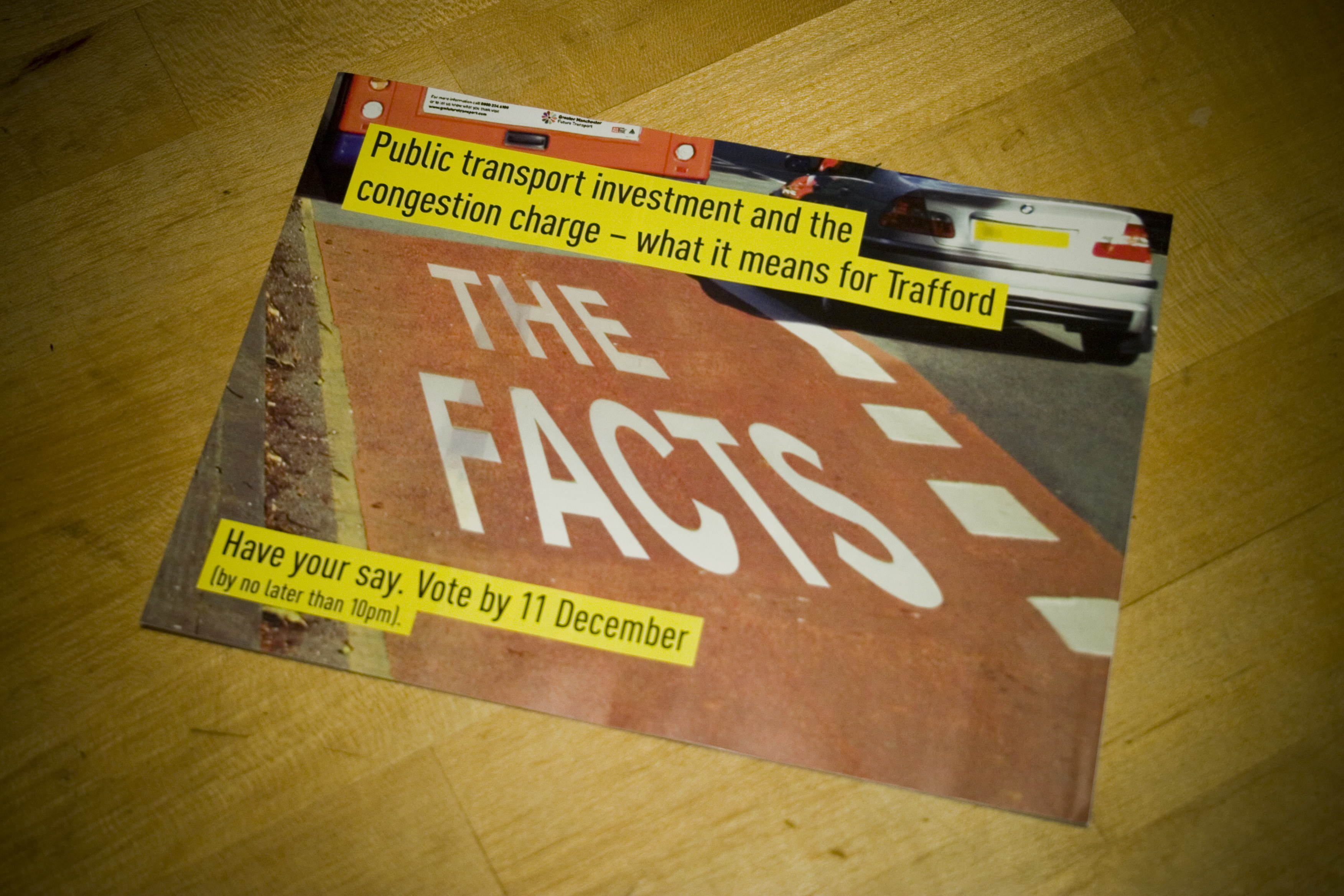 A GMPTA leaflet sent to homes in November 2008 detailing the TiF scheme.